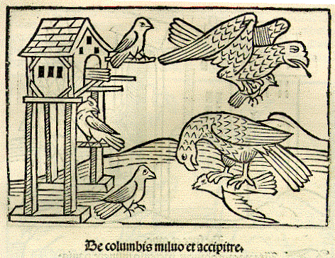 A 15th century illustration of the fable De columbis, milvo et accipitre from Heinrich Steinhöwel's collection of Aesop's Fables (1478)